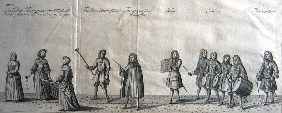 A digital reproduction of the first of 19 sheets of a copper engraving of the coronation procession of James II of England and Queen Mary of Modena. The coronation took place at Westminster Abbey on 23 April 1685.